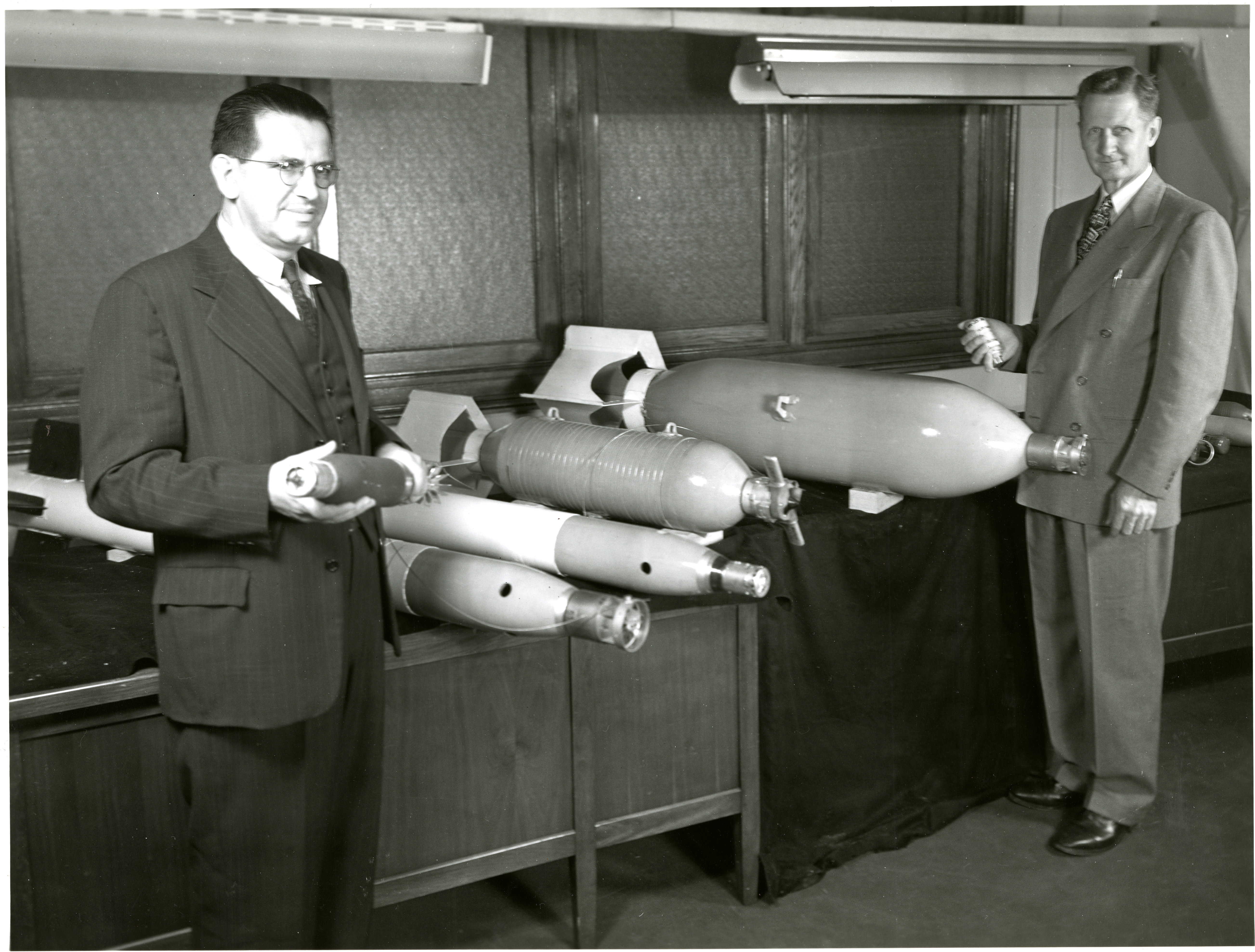 Harry Diamond (left), Chief of the Orgnance Development Division at NBS, shown holding the 81mm mortar shell with the mortar fuze, and Dr. Alexander Ellett, Chief of Division 4 of NRDC, shown holding the mortar fuze unmounted. Displayed left to right on the table: a ring-type bomb fize on a 260-pound fragmentation bomb, a rocket with the latest developed rocket fuze, a bar-type bomb mounted on a 260-pound fragmentation bomb, and a ring-type fuze on the 500-pound general purpose bomb.